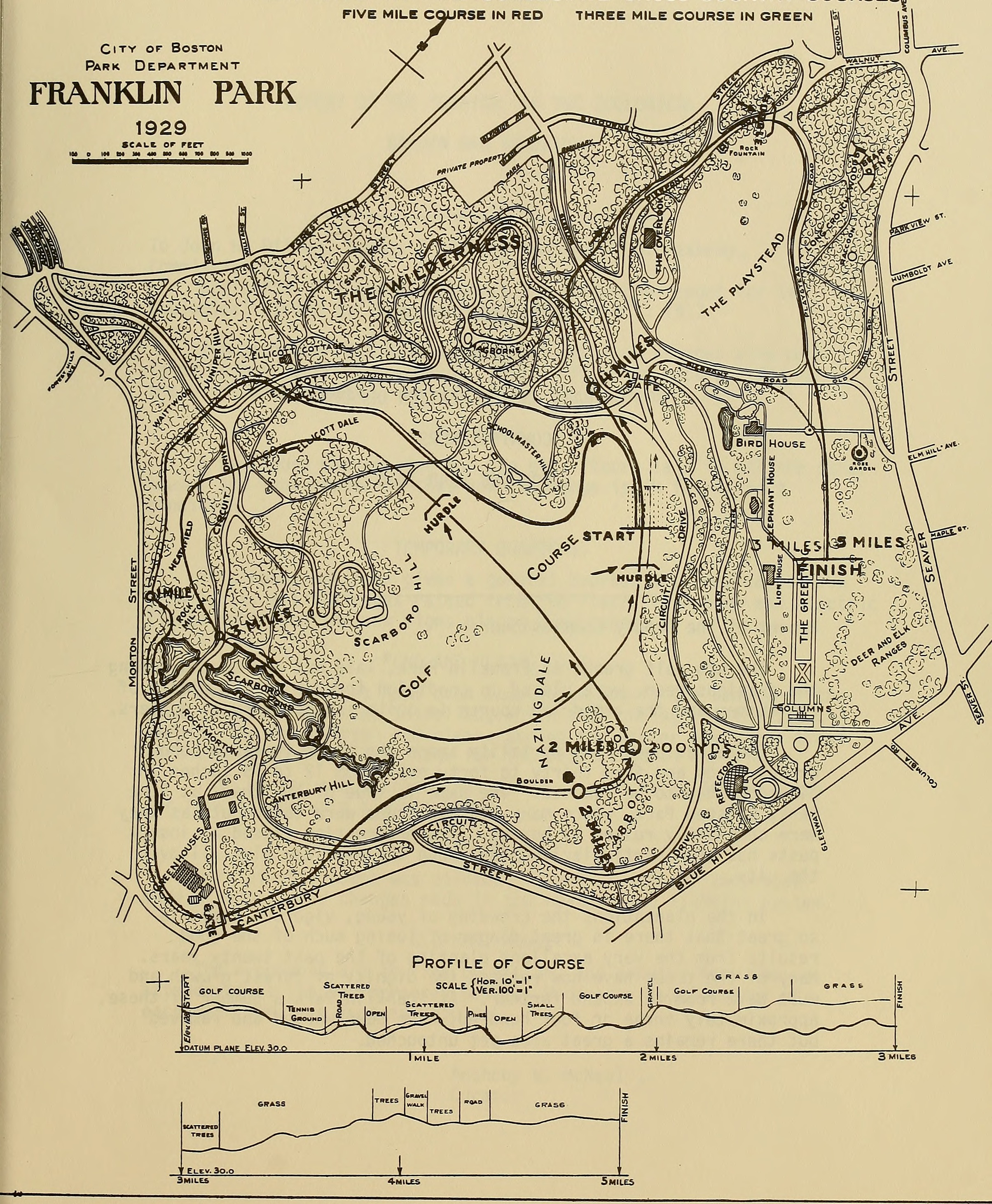 Title: Boston parks department annual reports for Franklin park, 1911-1926 Year: 1983 (1980s) Authors: Franklin Park Coalition, Inc; Boston Parks Dept Subjects: Aquariums; Boston Parks Dept; Parks; Zoos Publisher: Text Appearing Before Image: NEW ENGLAND INTERCOLLEGIATE CROSS COUNTRY COURSES^ Five MILE COURSE IN RED THREE MILE COURSE IN GREEN U City of Boston Park Department FRANKLIN PARK 1929 SCALE, or recT Text Appearing After Image: '